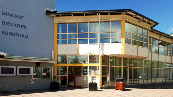 Kramfors bibliotek